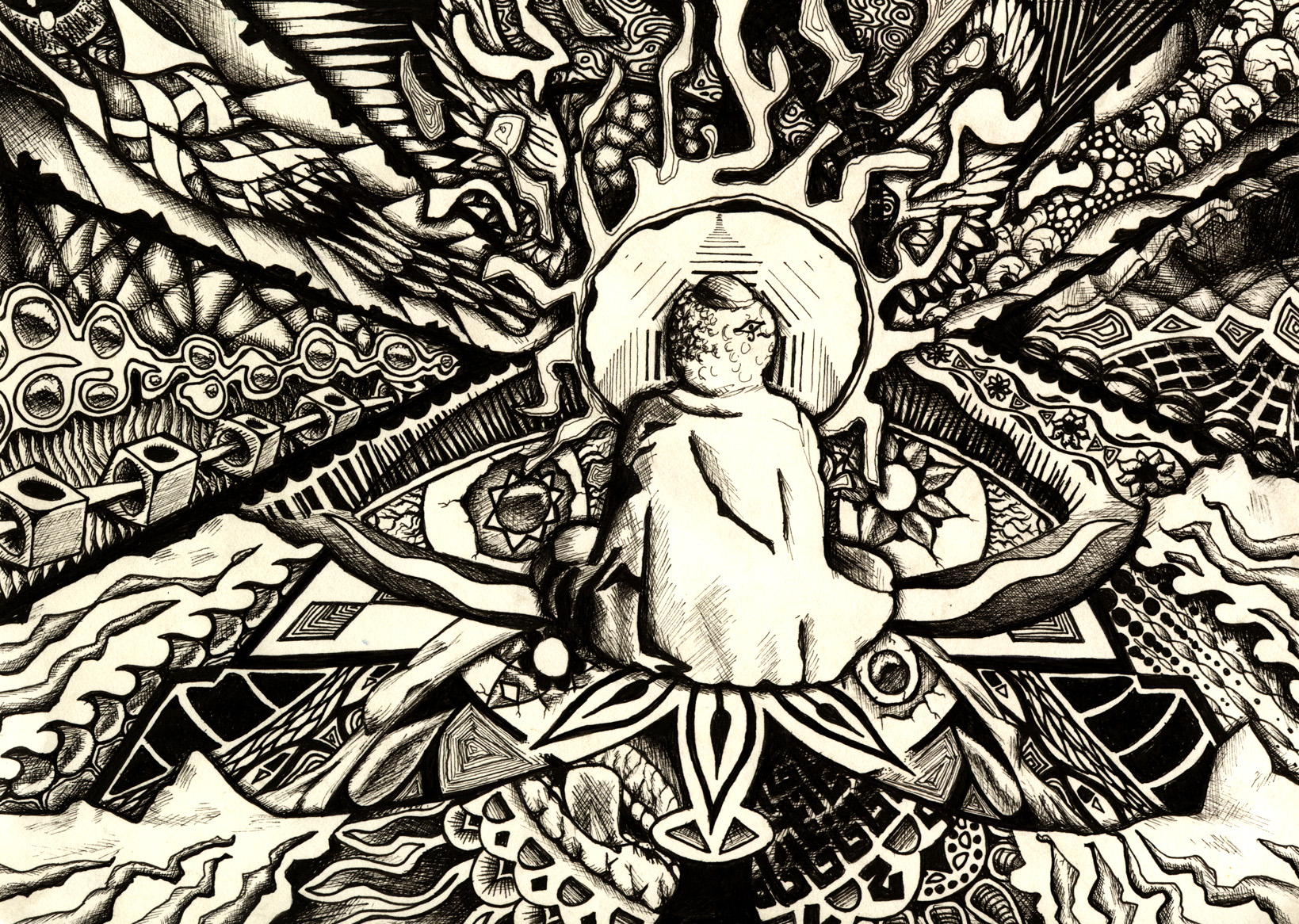 attempts to capture the visions experienced on a psychedelic trip